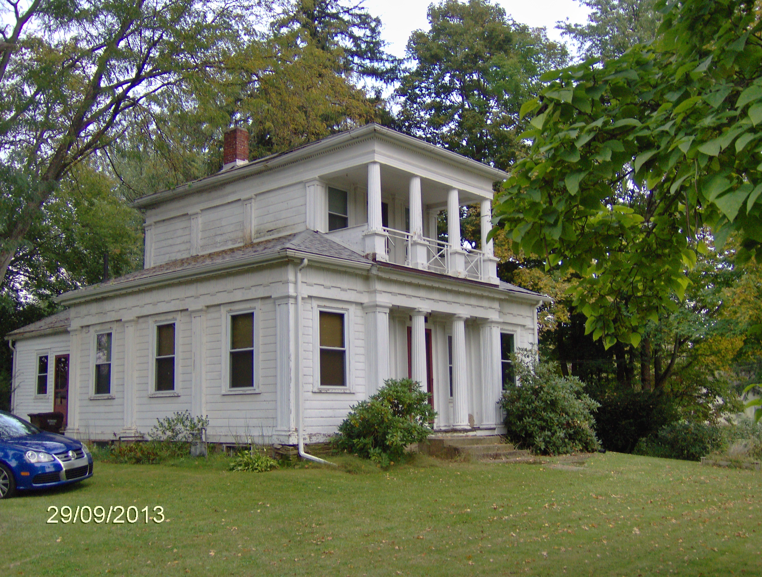 John Henderson House, 5248 Stanhope-Kelloggsville Rd. in West Andover Andover Township